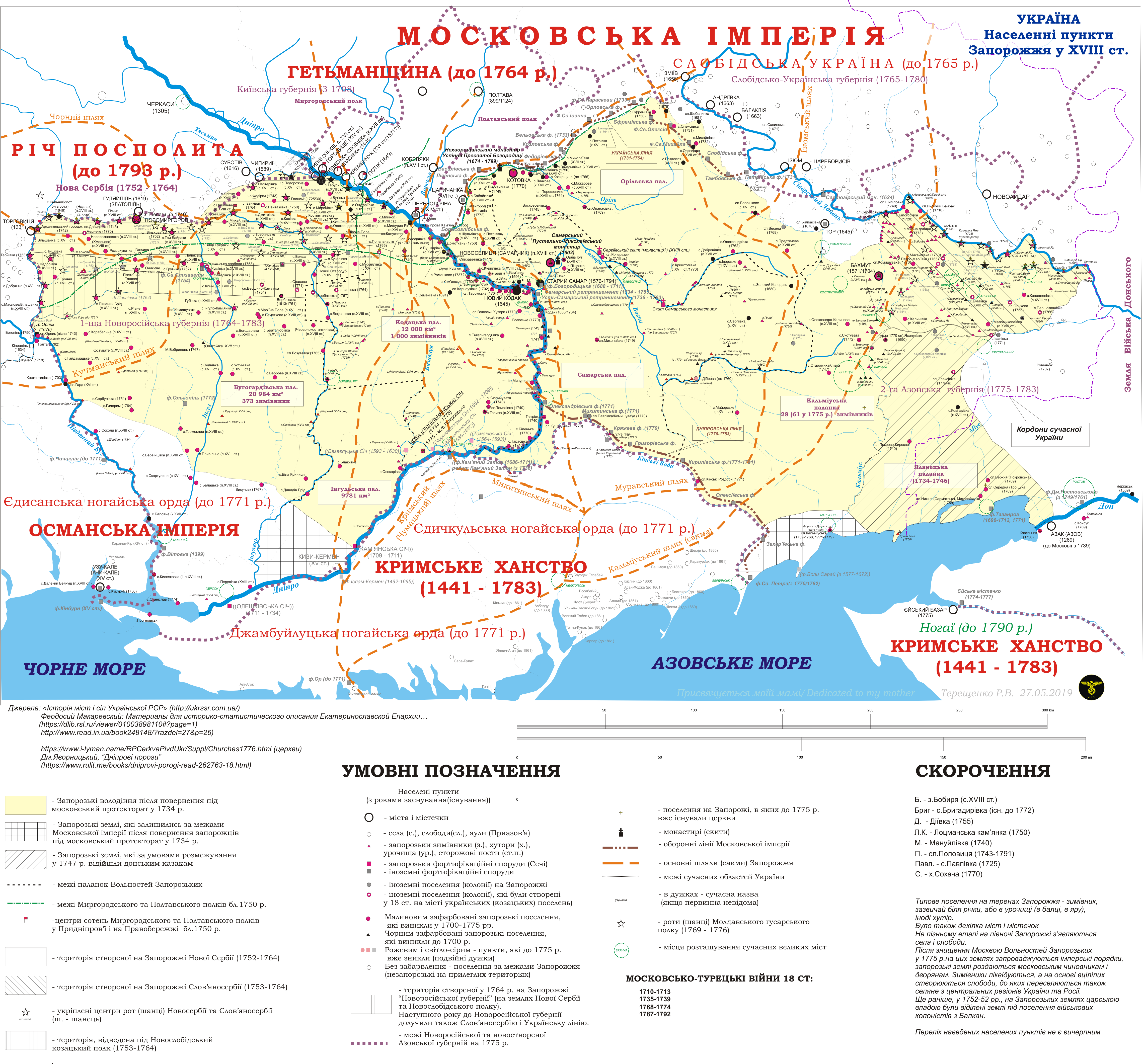 Settlements in Zaporozhye in the 18th century, Zaporozhye lands of the times of the New Sich